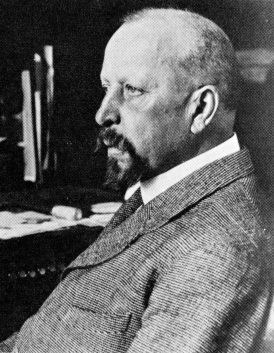 Portrait of Leland Ossian Howard (1857-1950)